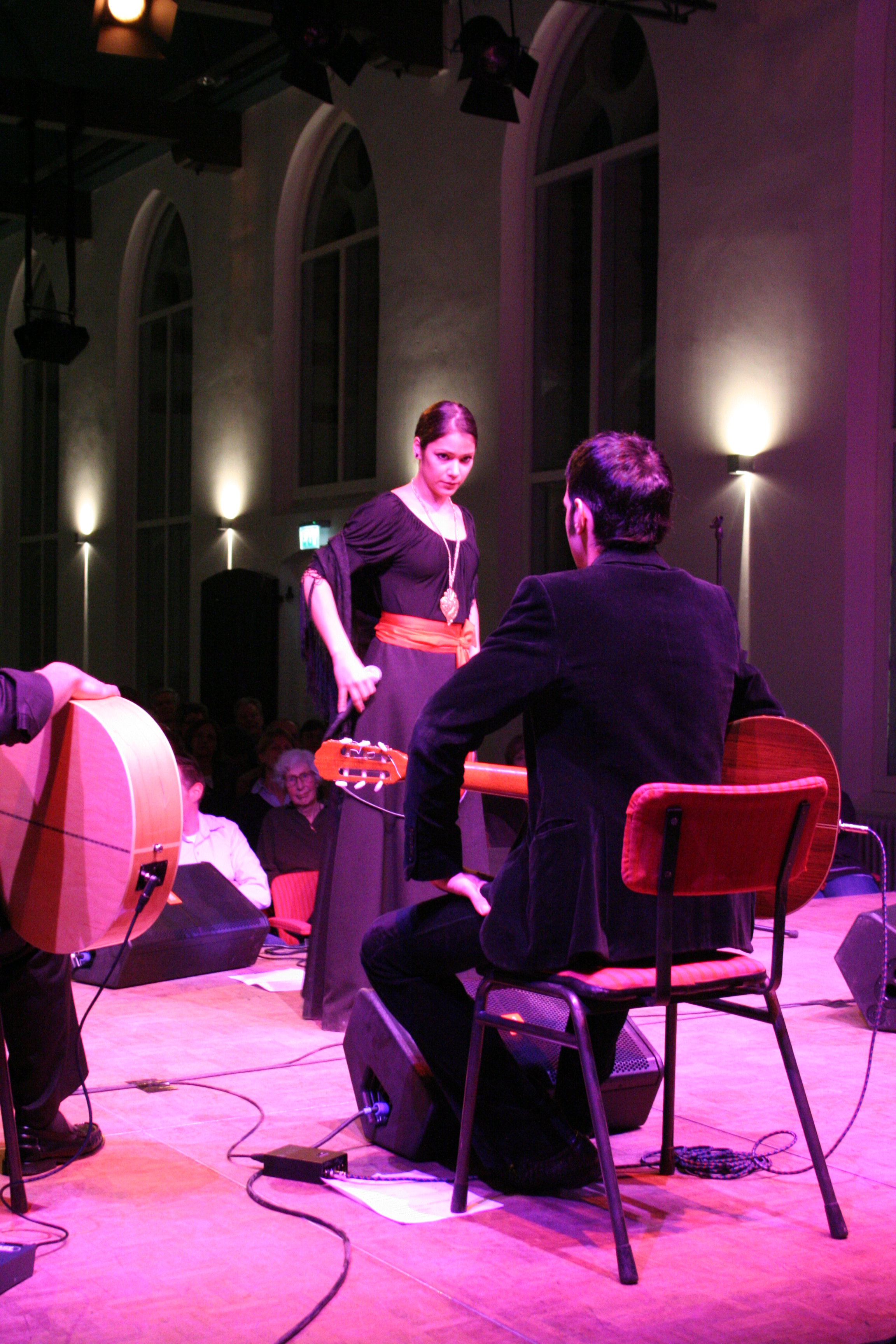 Raquel Tavares performing in Utrecht